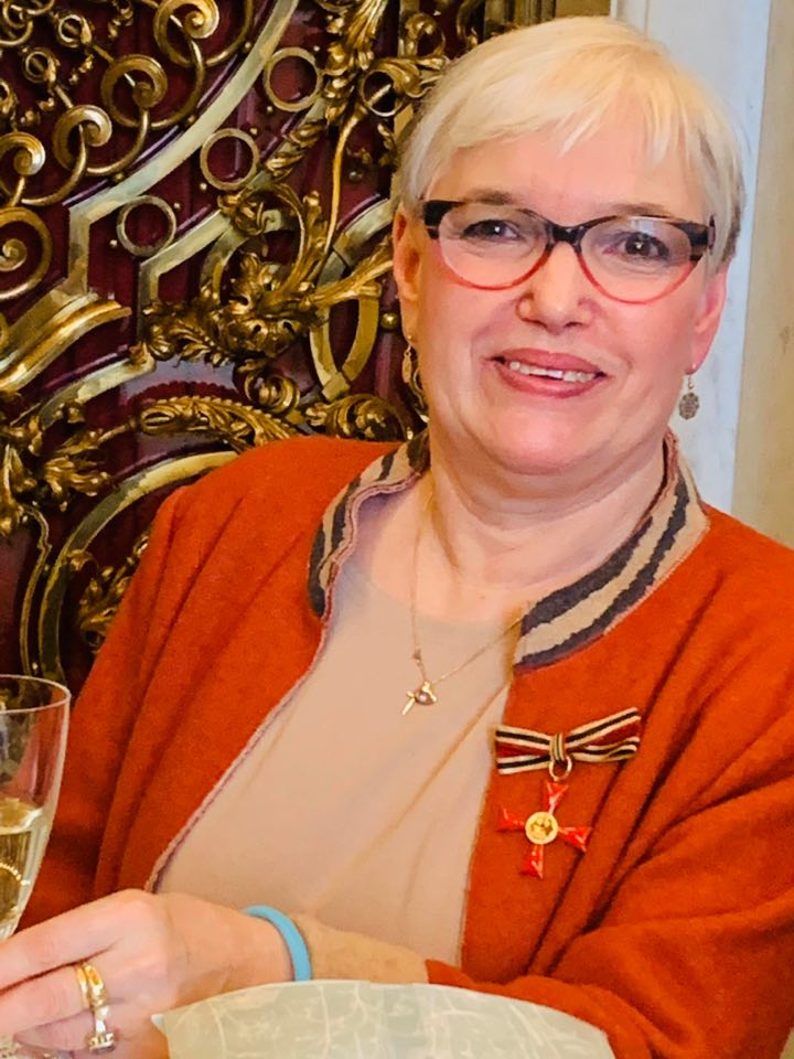 Antonia Peters